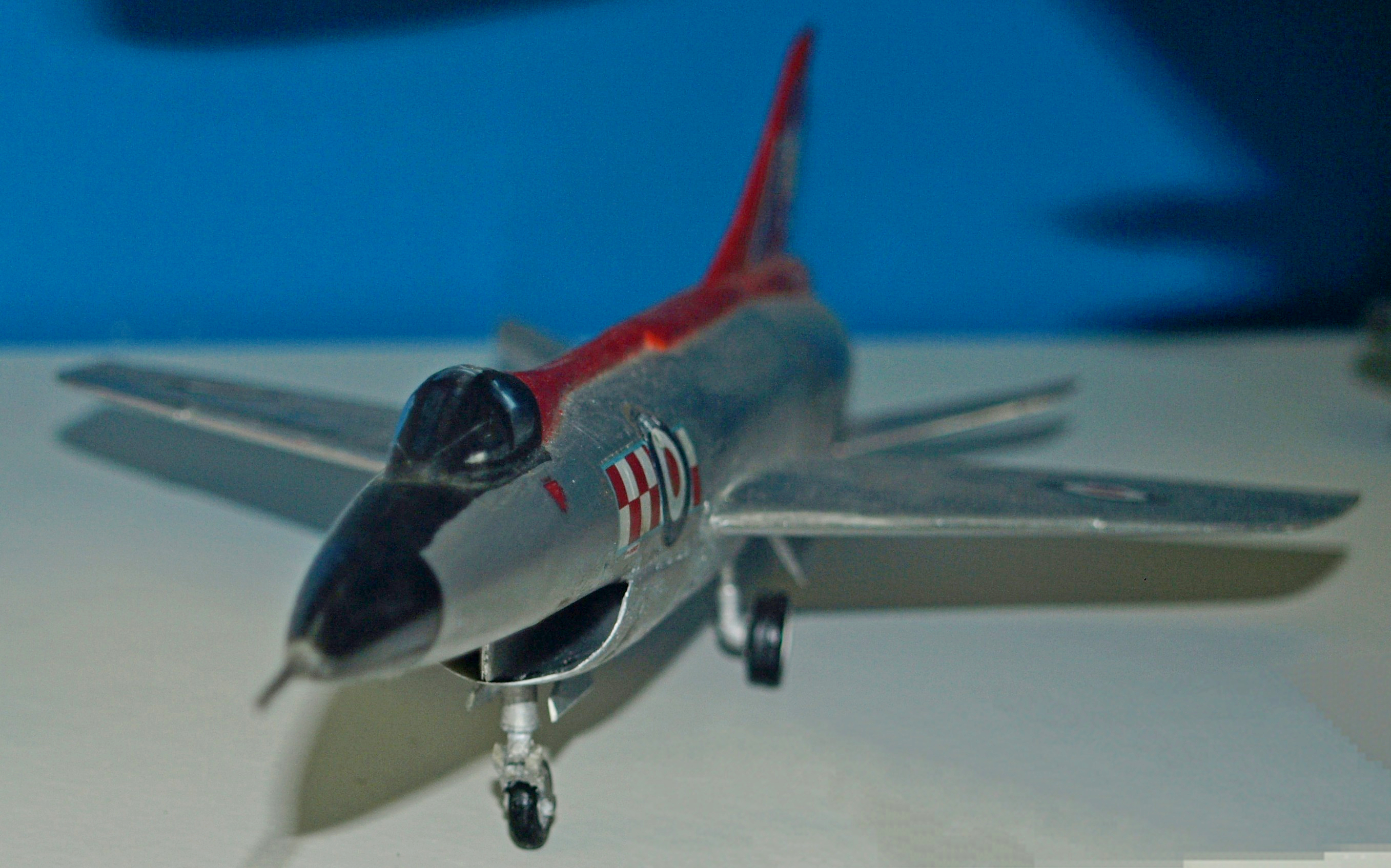 Model of Hawker P.1121 prototype fighter aircraft on display at the Midland Air Museum.